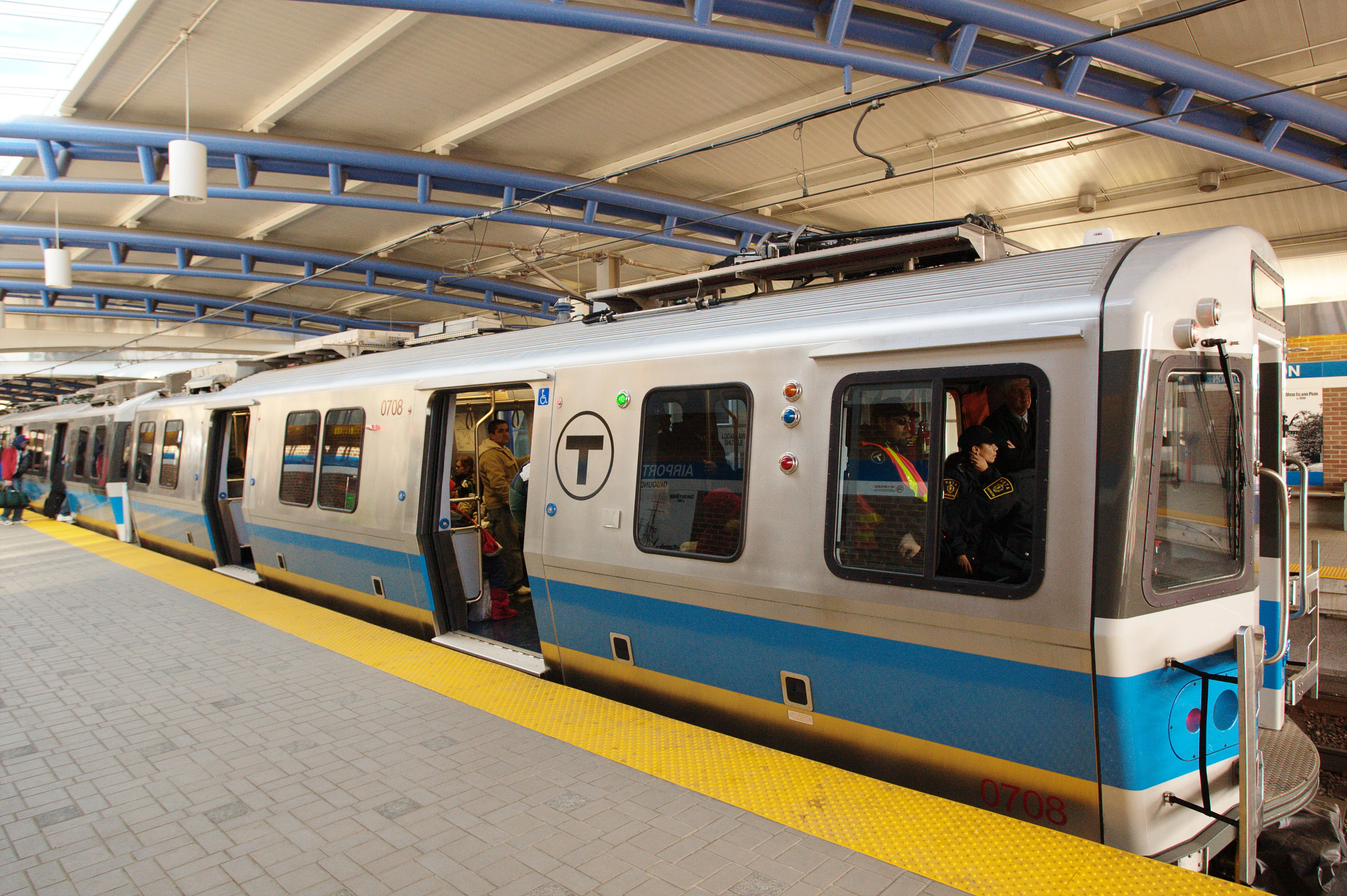 Brand-new 700 series cars on their first trip. Seen here at Airport station.